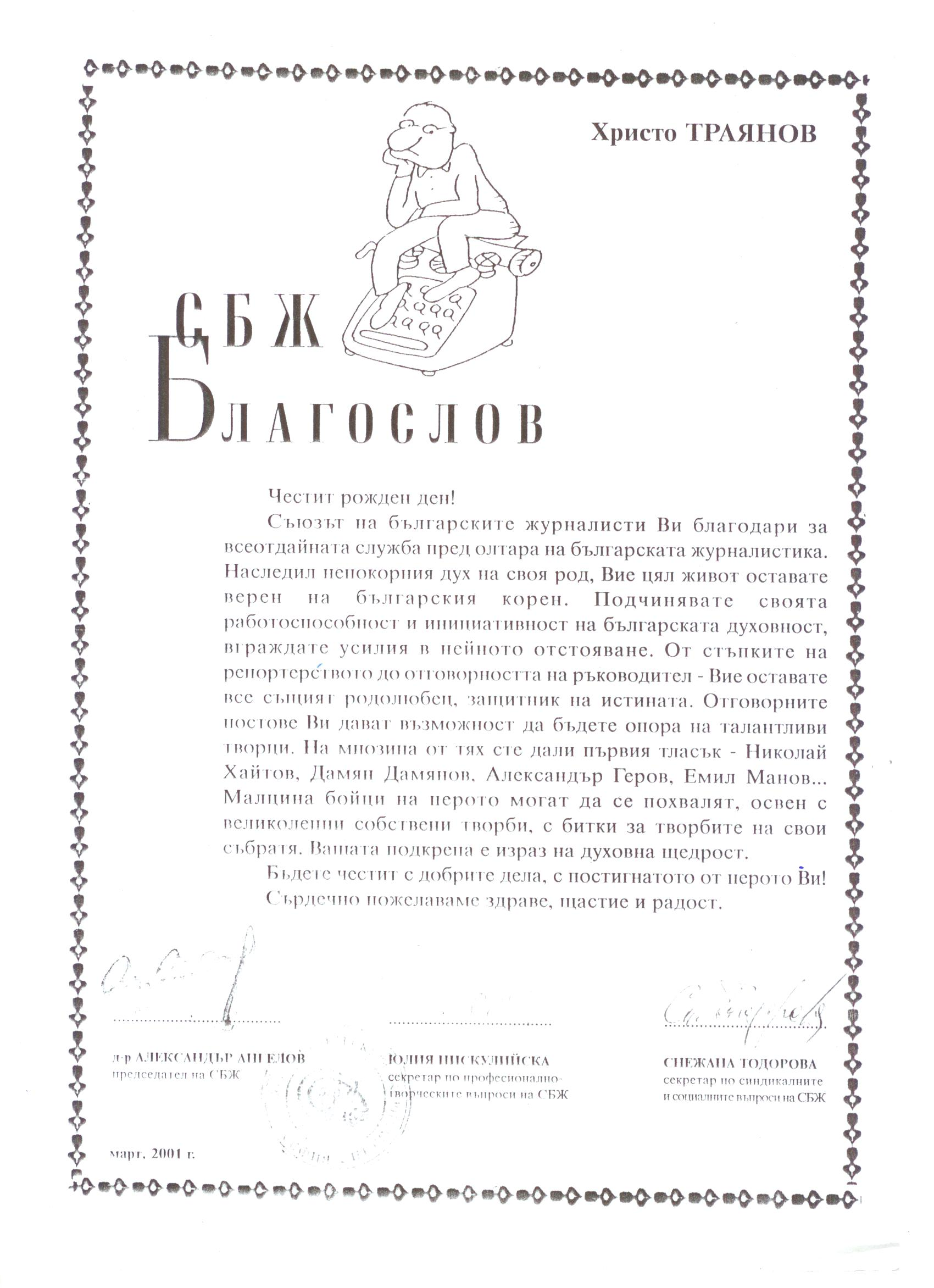 Поздравителен адрес СБЖ 2001г.